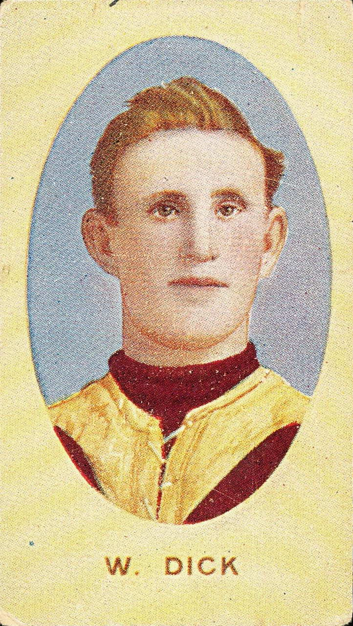 Cigarette card of Billy Dick from the Sniders & Abrahams 1910 series